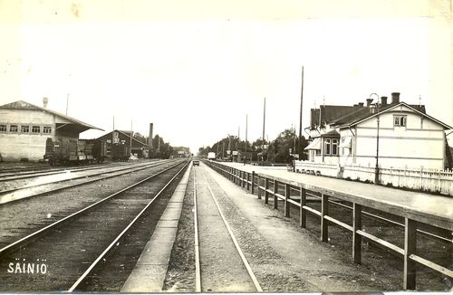 The railwaystation of Säiniö in Viipuri municipality Finland.